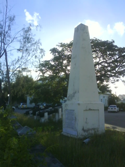 The monument which marks the initial claim of Barbados by the English in 1625, with initial settlement in 1627. (Due to writer's devil this date was erroneously recorded as 1605 in various books and on the plaque.)